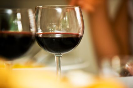 Glass of wine, selective focus, space for copy, canon 1DS mark III